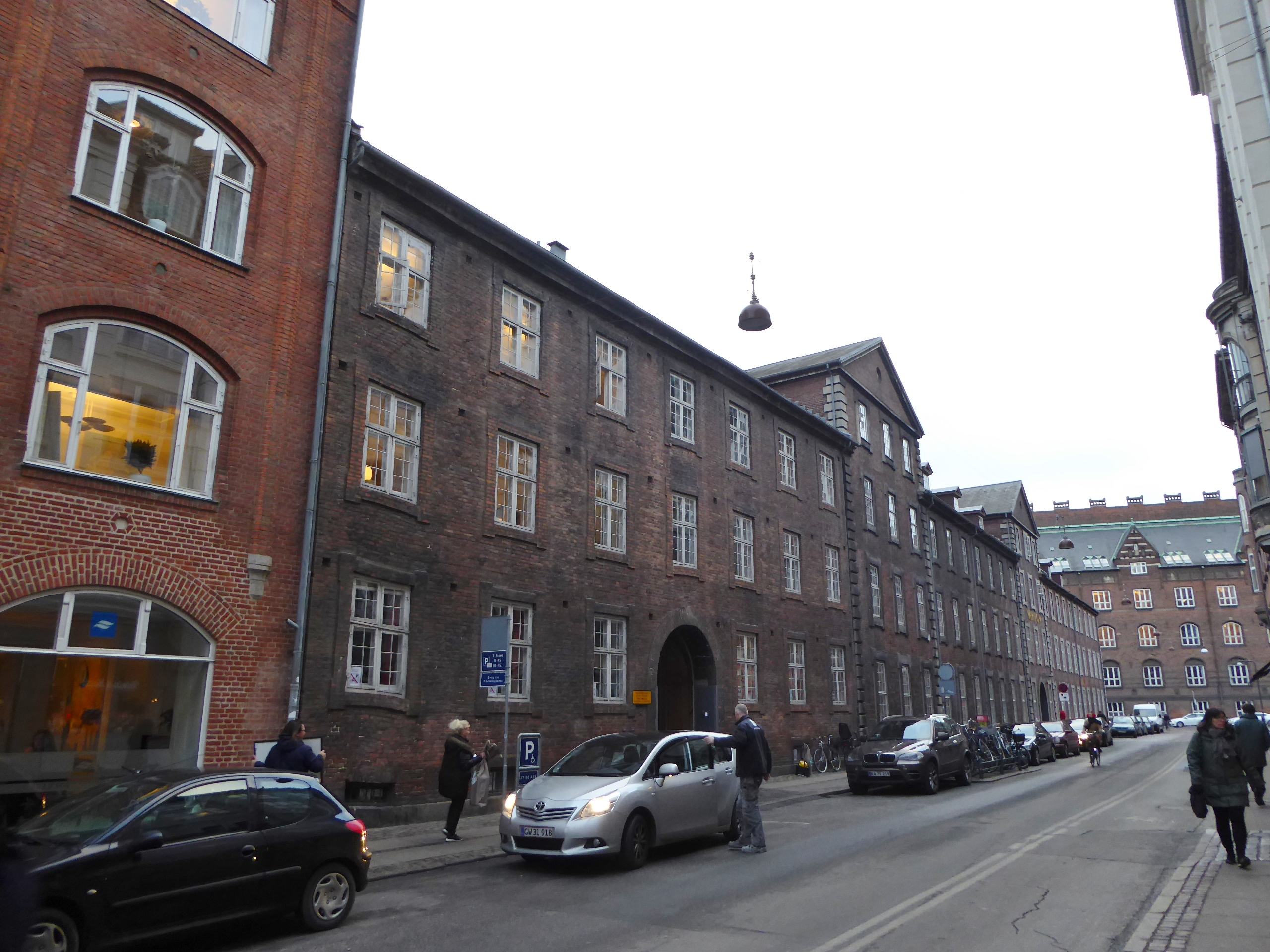 The building Vartov at Farvergade in Indre By in Copenhagen.